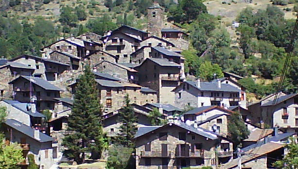 Os de Civís (Alt Urgell, Catalunya, Spain)